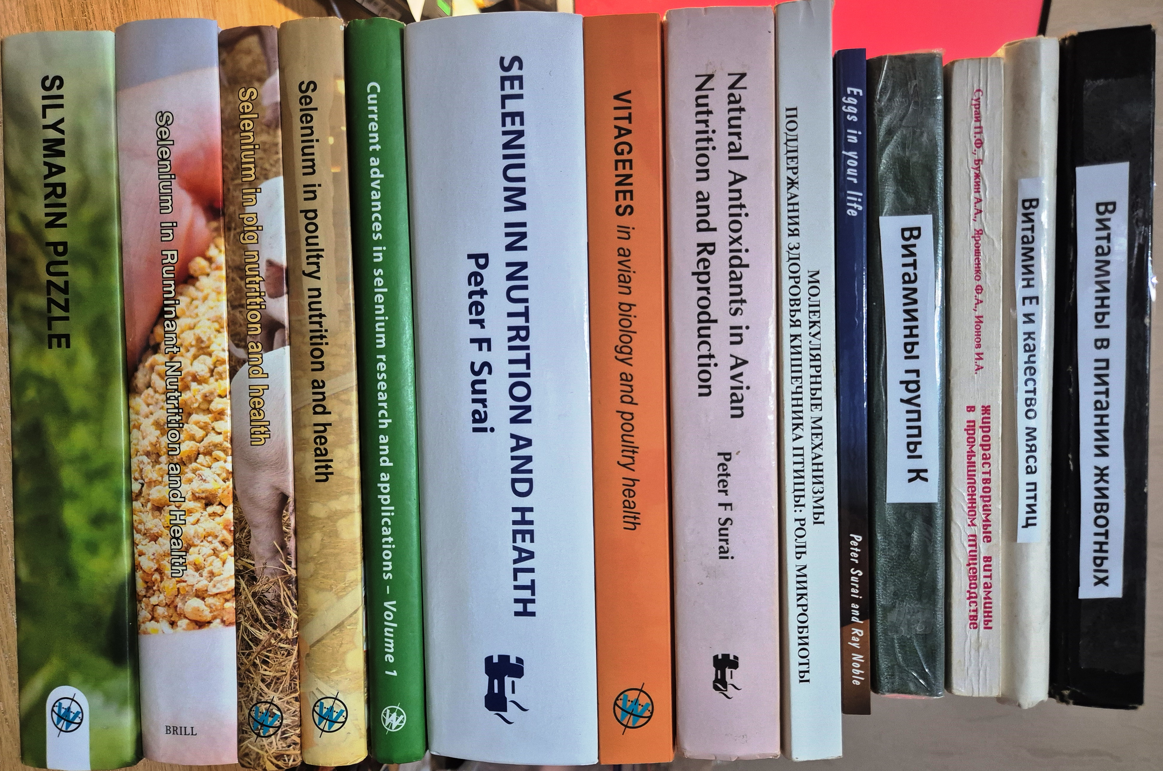 Peter F. Surai's scientific books